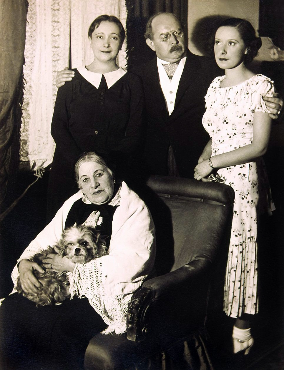 Lovagias ügy by Sándor Hunyady (1890-1942). Pest Theater Photography, March 23, 1935 (Budapest, Hungary)